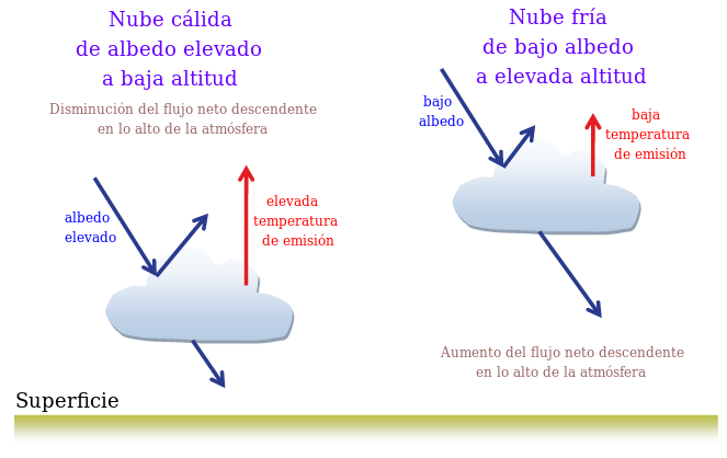 Schematic illustration of the influence of the different types of clouds on the Earth's heat budget.